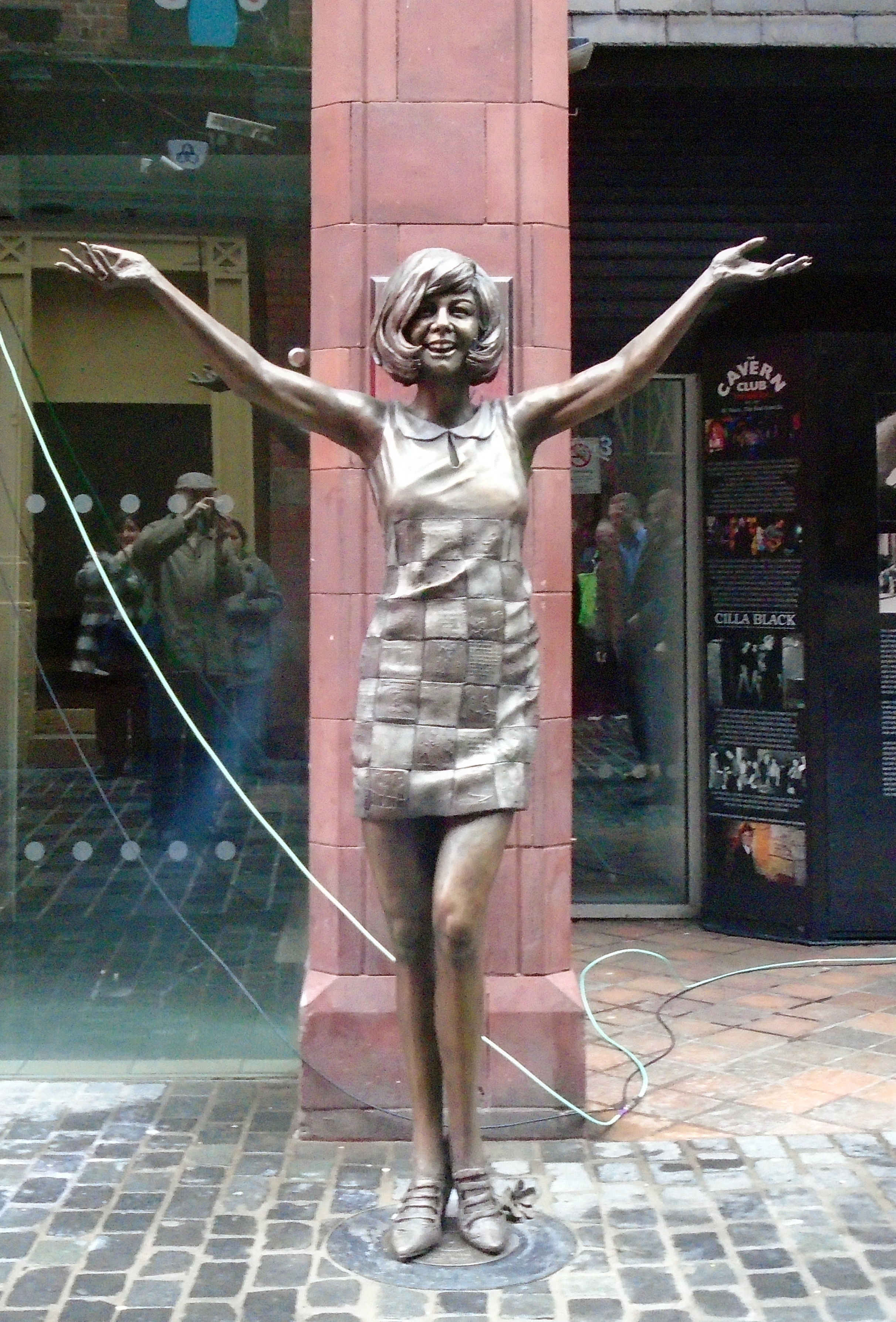 View from across Mathew Street